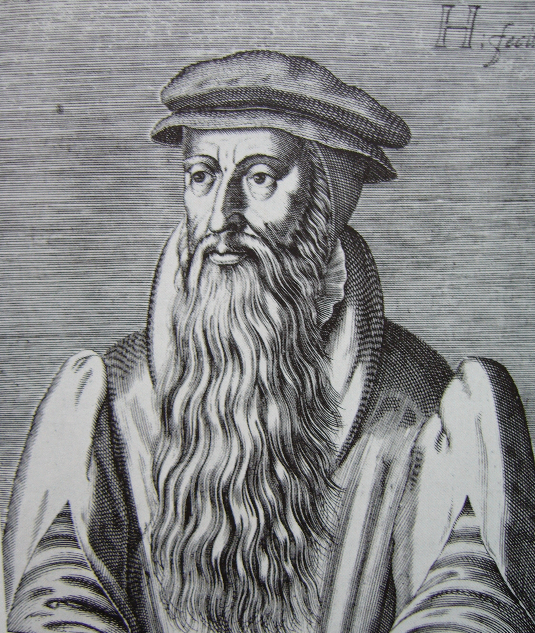 John Knox woodcut